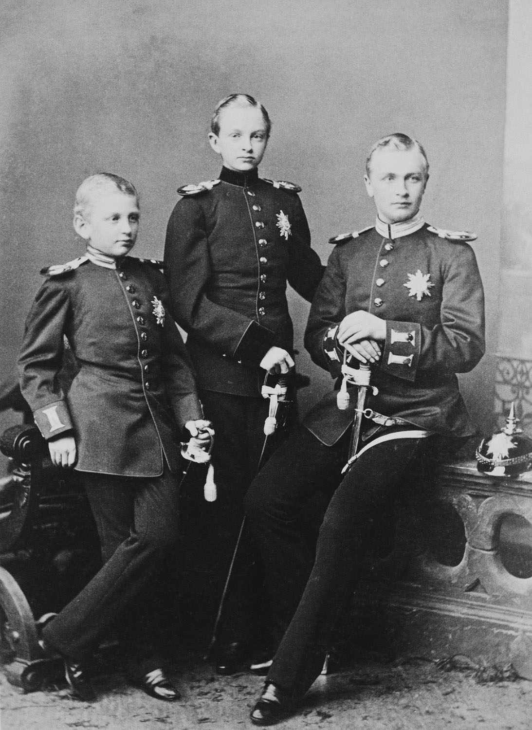 Prince Maximilian, Prince John Georg and Prince Frederick Augustus, sons of King George of Saxony